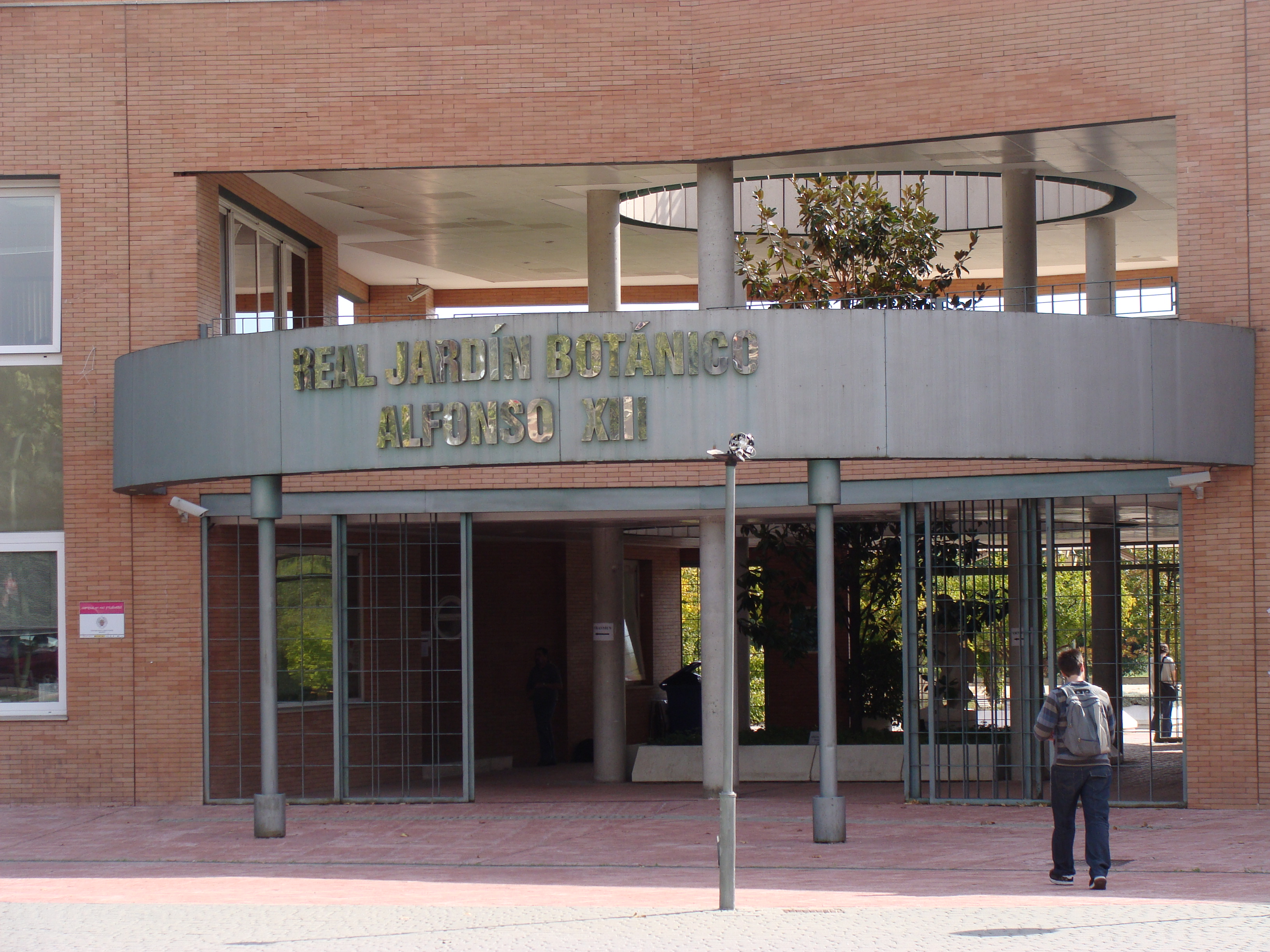 Royal Botanical Garden Alfonso XIII, in Madrid